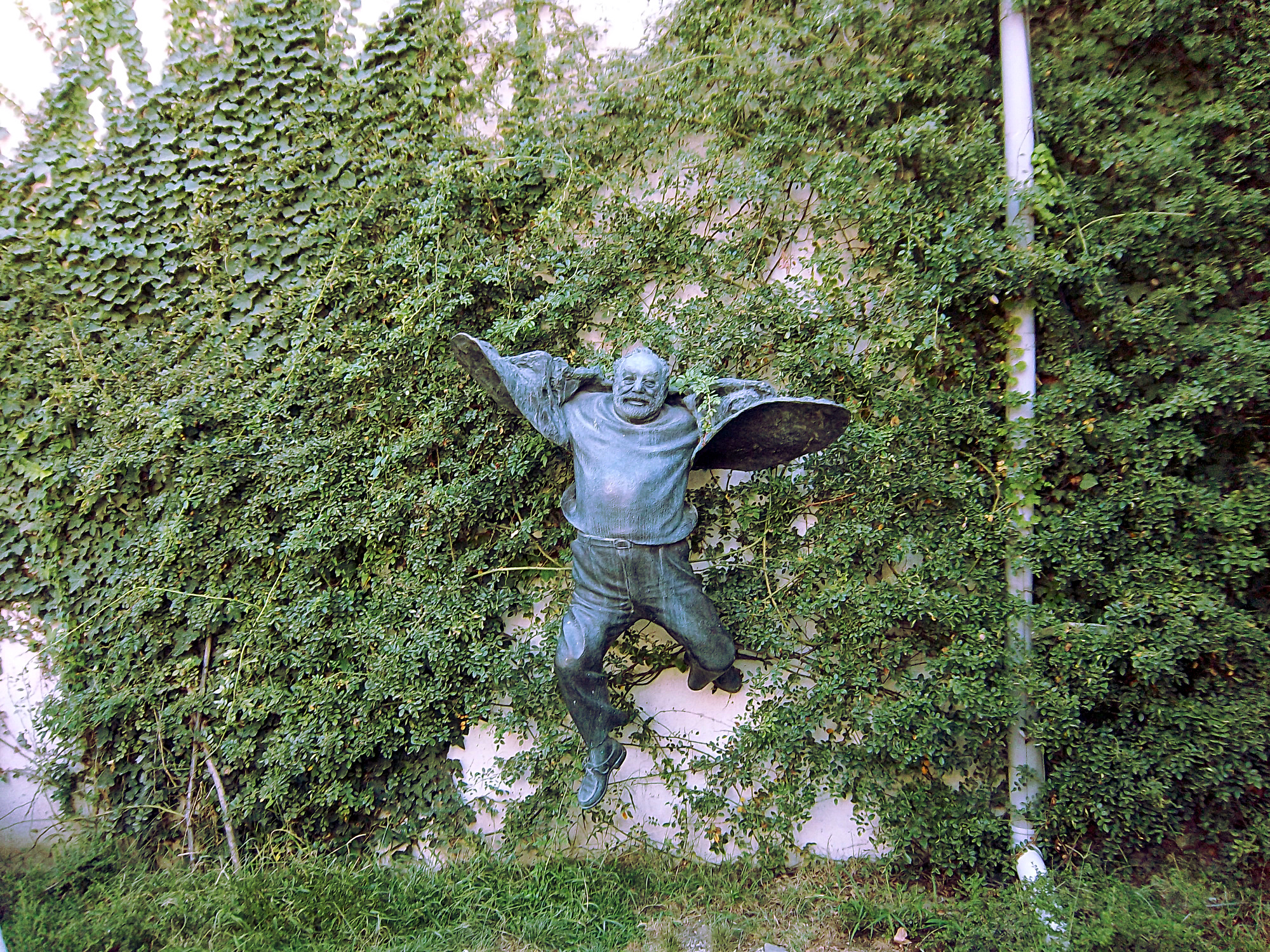 Parajanov's monument in Tbilisi